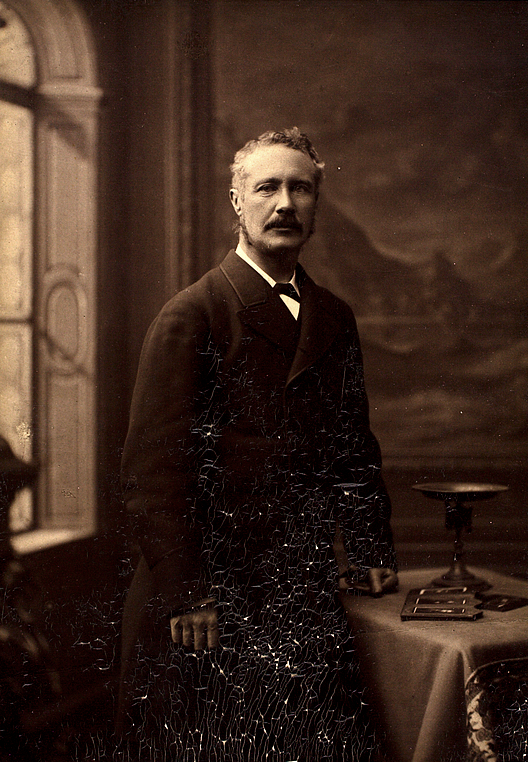 Charles George Gordon (1833-1885); Carbon print on card